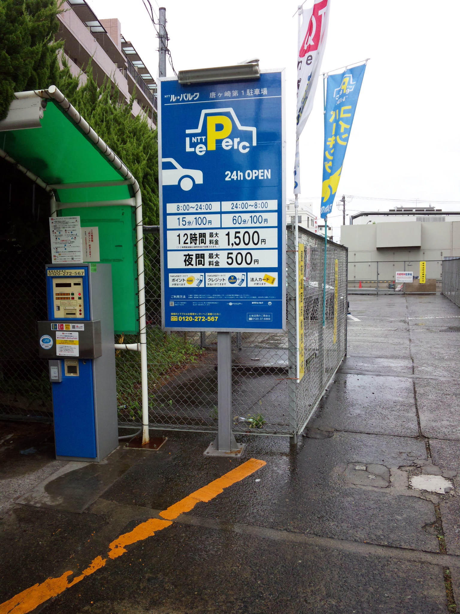 NTT LePark